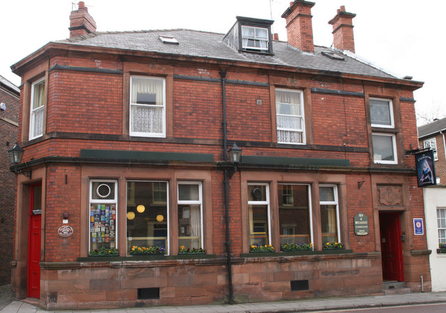 The Victoria Hallgarth Street Noteworthy real ale pub.